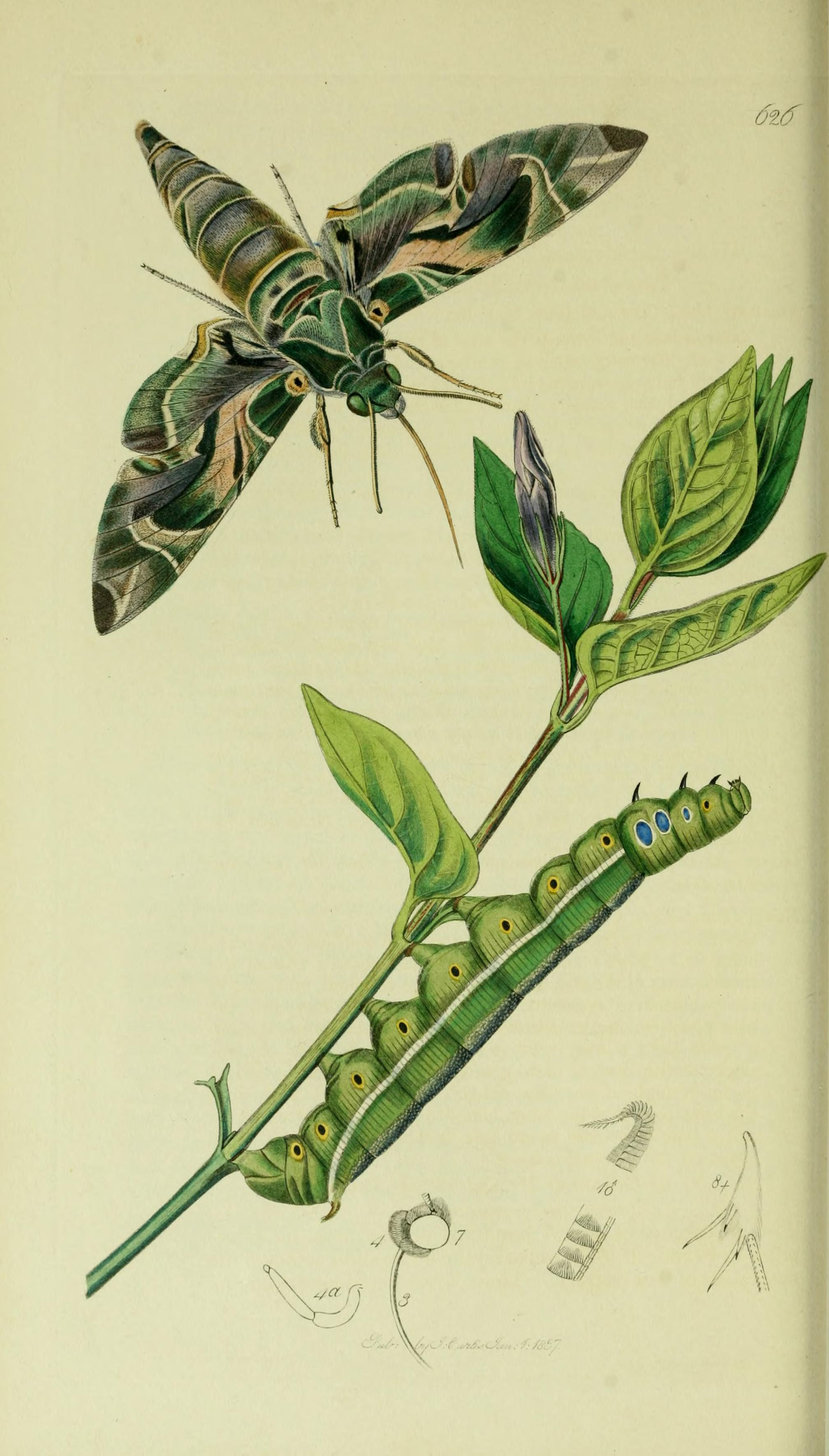 An illustration from British Entomology by John Curtis. Daphnis nerii (Rose-Bay Sphinx, Oleander Hawk).